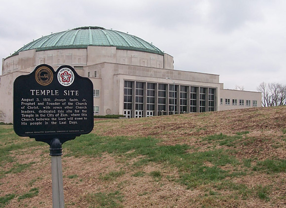 Temple Lot w/ Auditorium in background. Original photo by John Hamer.